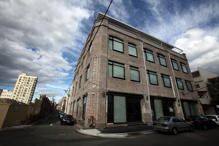 White Rabbit Gallery, Sydney